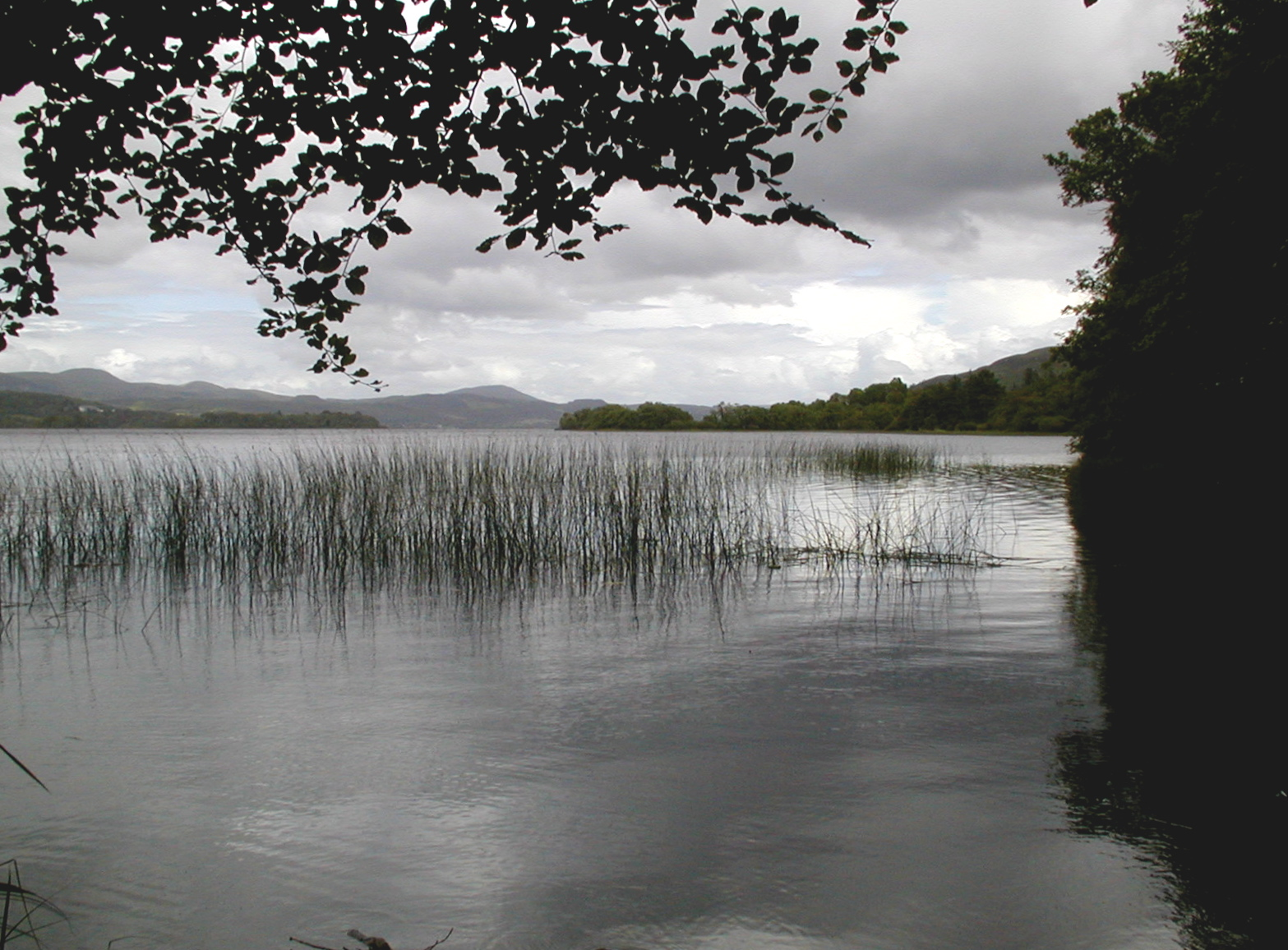 Lough Gill, Sligo, Ireland.